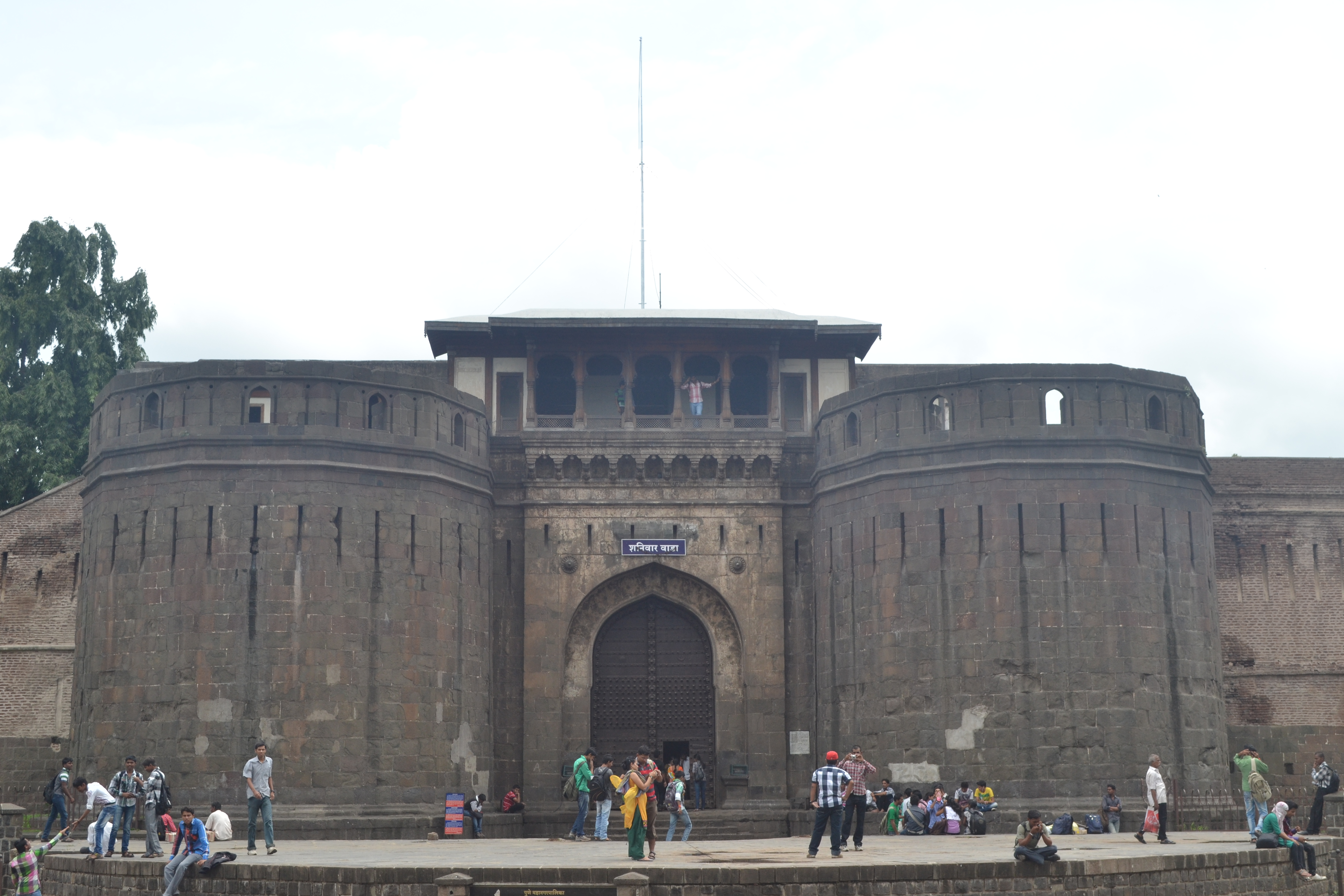 Old Citadel know as Shaniwar Wada